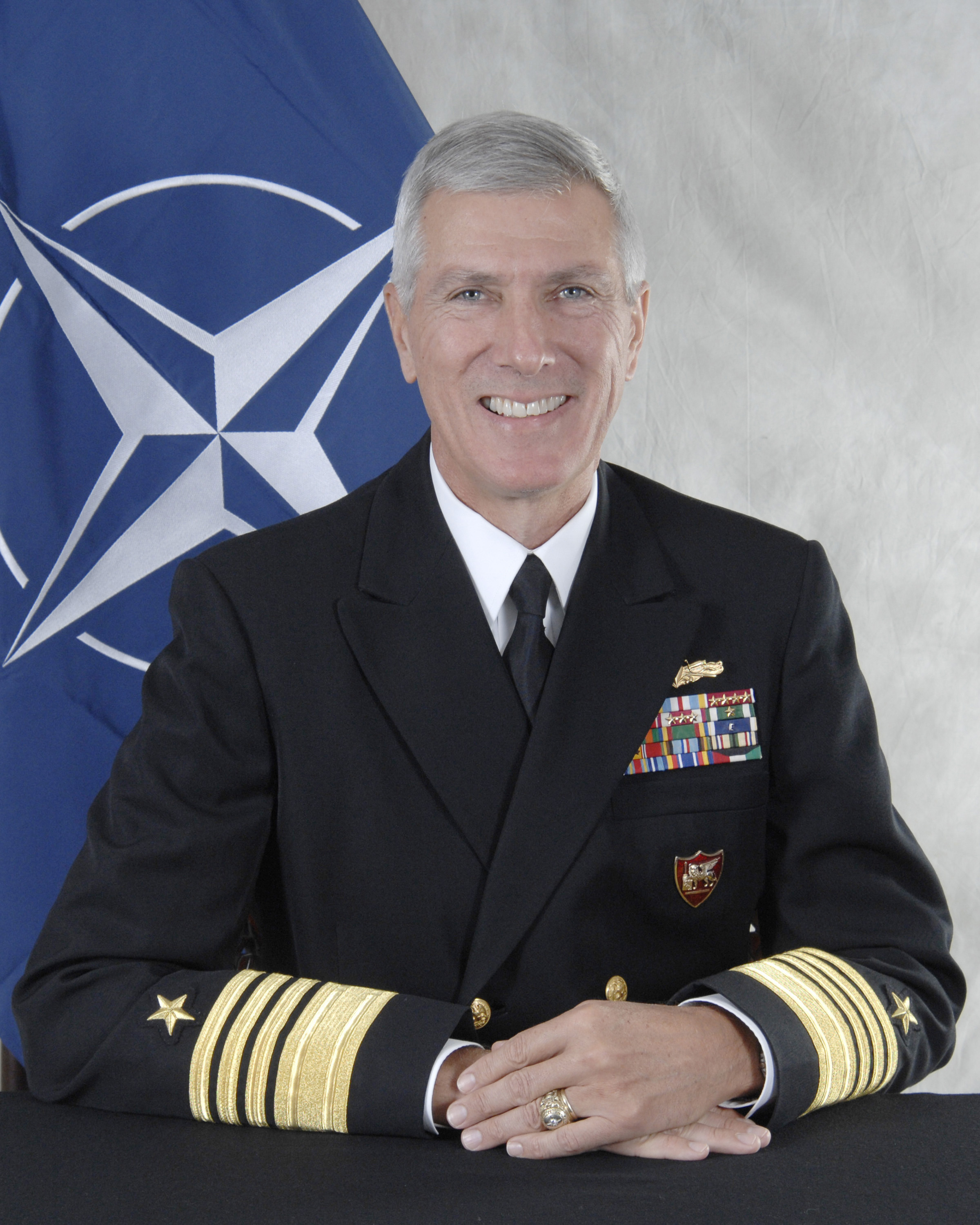 Admiral Samuel J. Locklear III, USN Commander, U.S. Naval Forces Europe Commander, U.S. Naval Forces Africa Commander, Allied Joint Force Command Naples